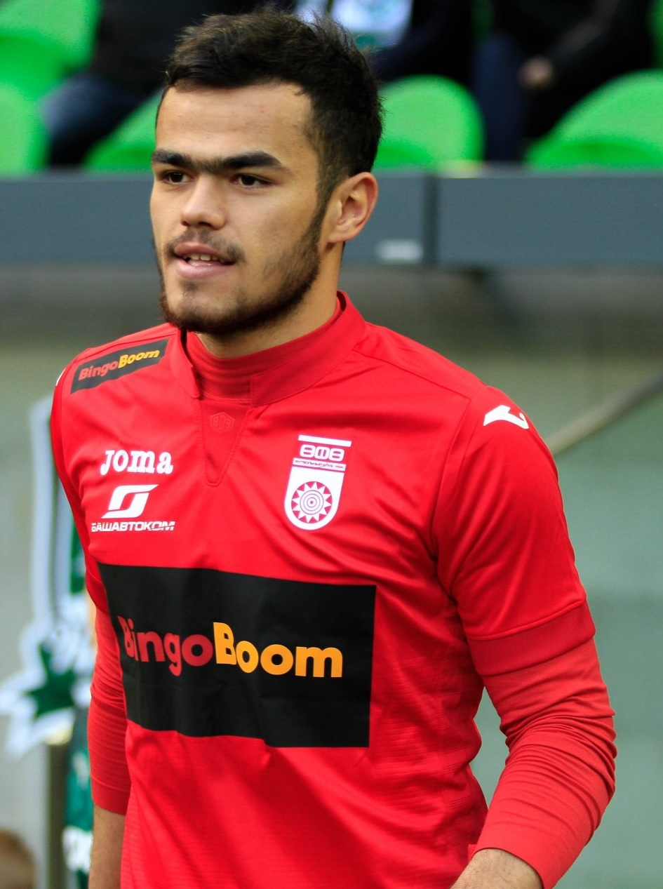 Oston Urunov with FC Ufa in a game against FC Krasnodar.